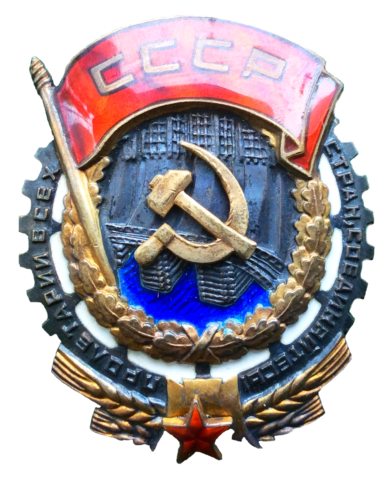 Order of the Red Banner of Labour